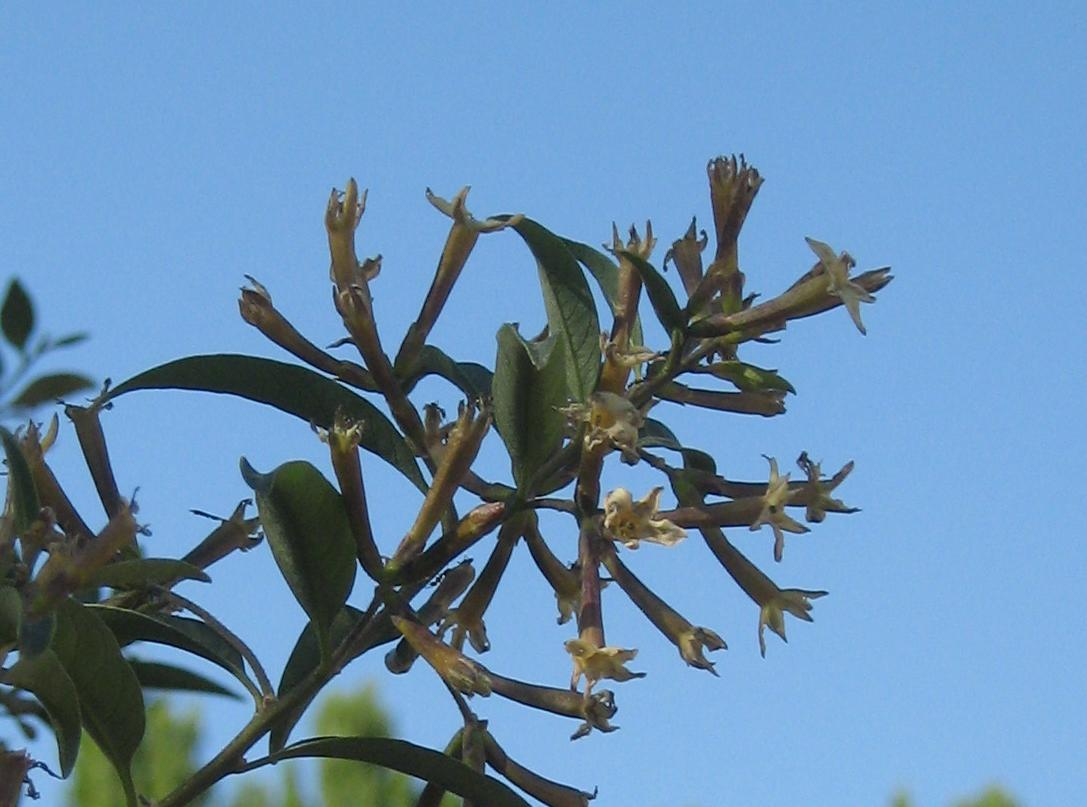 Cestrum parqui, shrub from Chilean Matorral, and ruderal sites